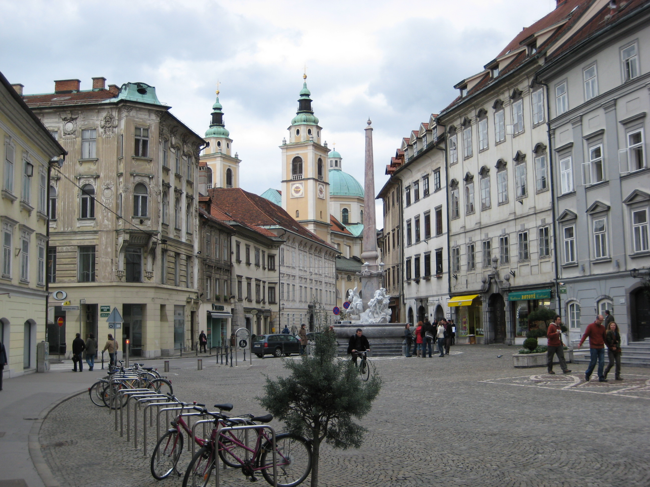 Small square (Mestni trg) in Ljubljana with cathedral church of St. Nicholas (Stolnica Sv. Nikolaja) in the background